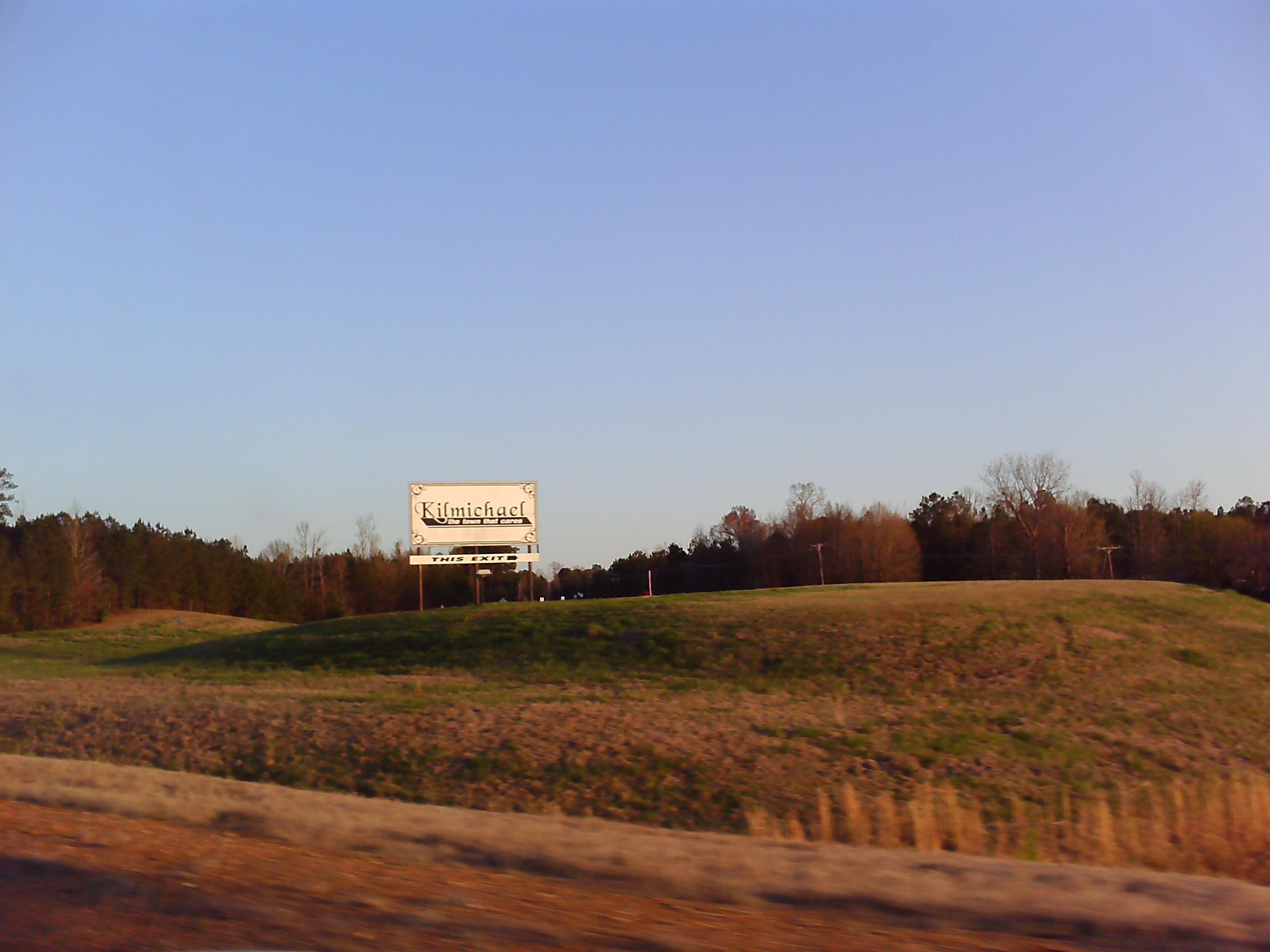 Kilmichael, Mississippi sign